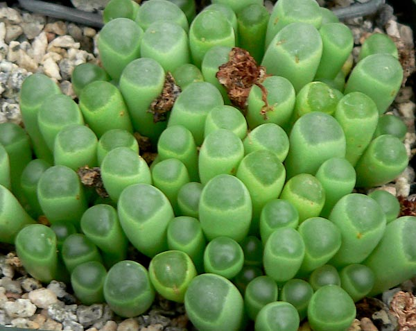 Photo of Fenestraria aurantica at the University of California Botanical Garden